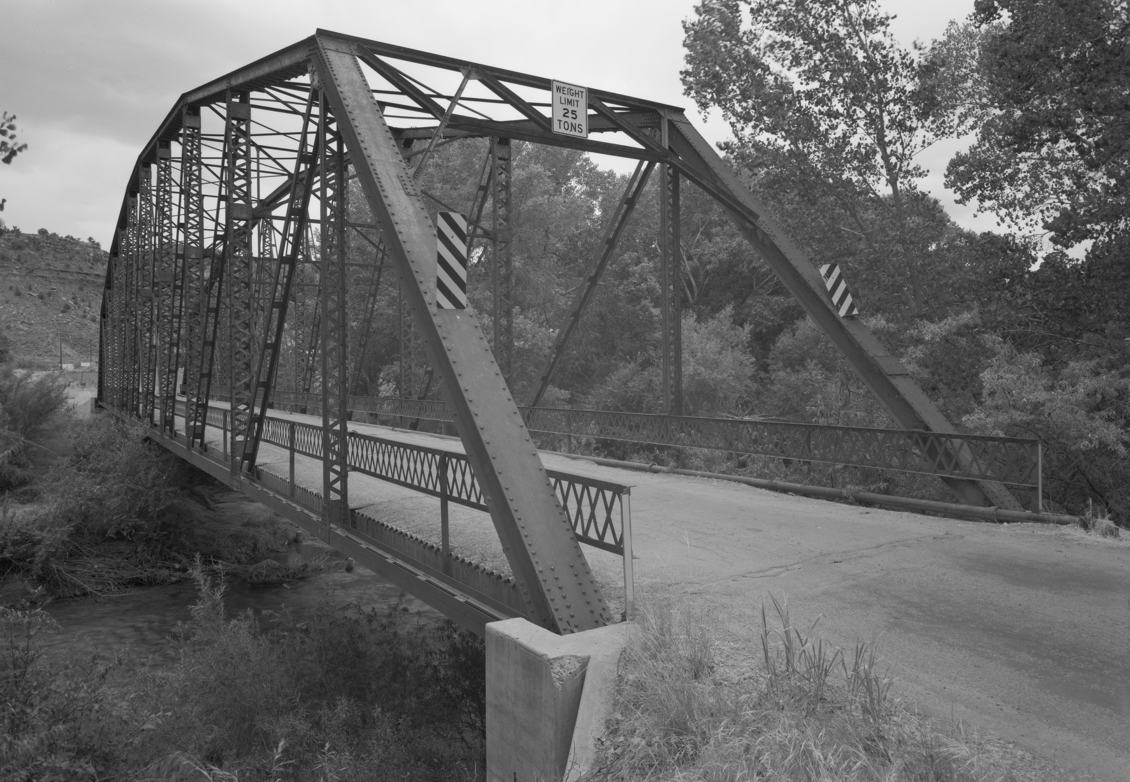 Southwestern end of the Rockville Bridge, which carries Bridge Street over the East Fork of the Virgin River in Rockville, Utah, United States. Built in 1924, the bridge is listed on the National Register of Historic Places.